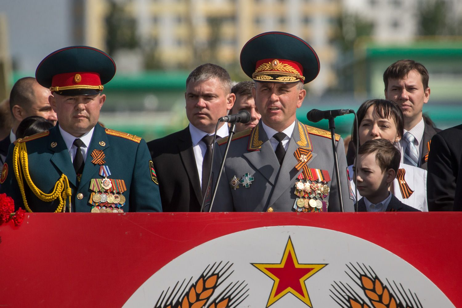 The ceremonial events devoted to the 72nd anniversary of the Great Victory in Tiraspol.